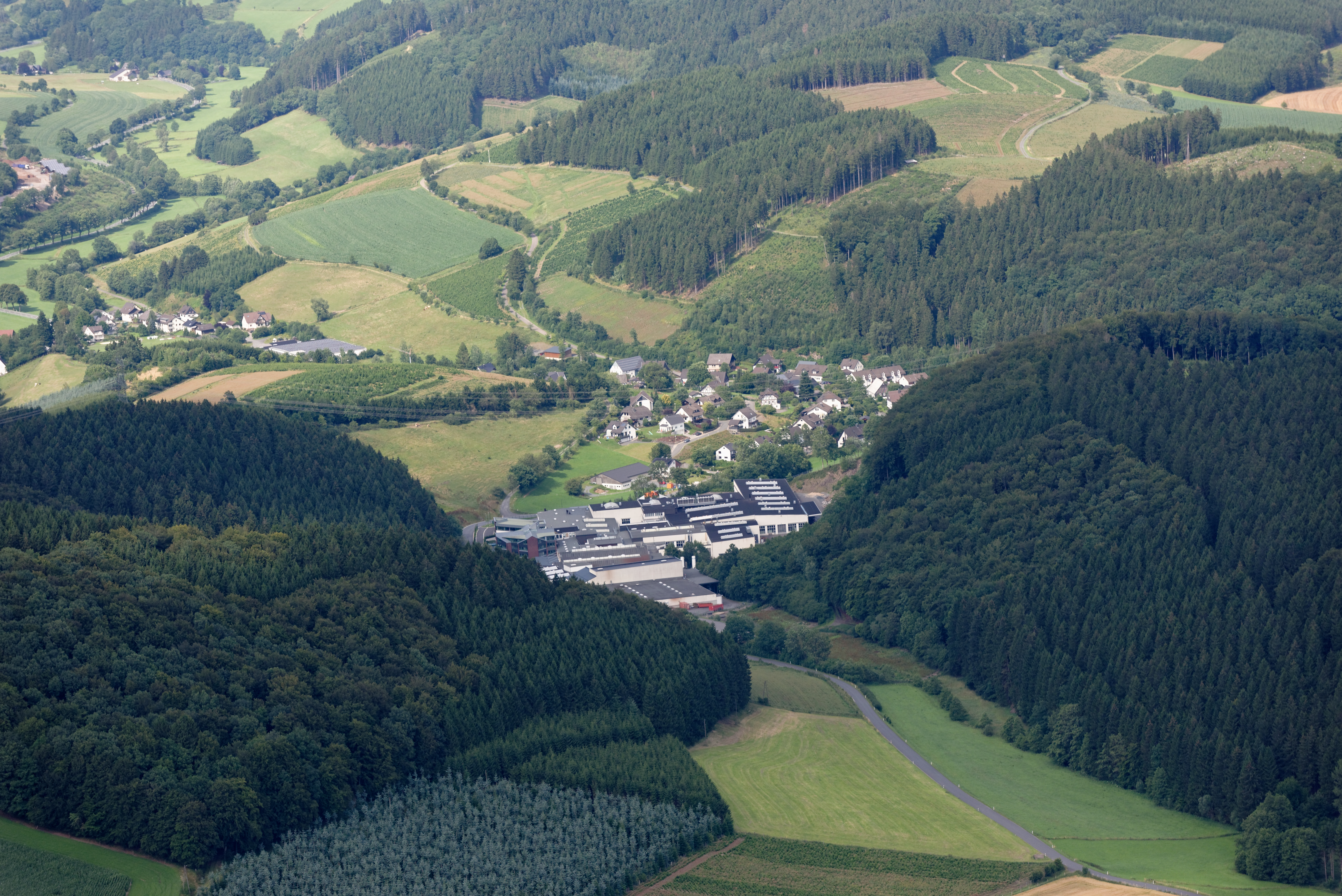 The making of this document was supported by the Community-Budget of Wikimedia Germany. Esloher Ortsteil Kückelheim mit Fa. Kettenwulf